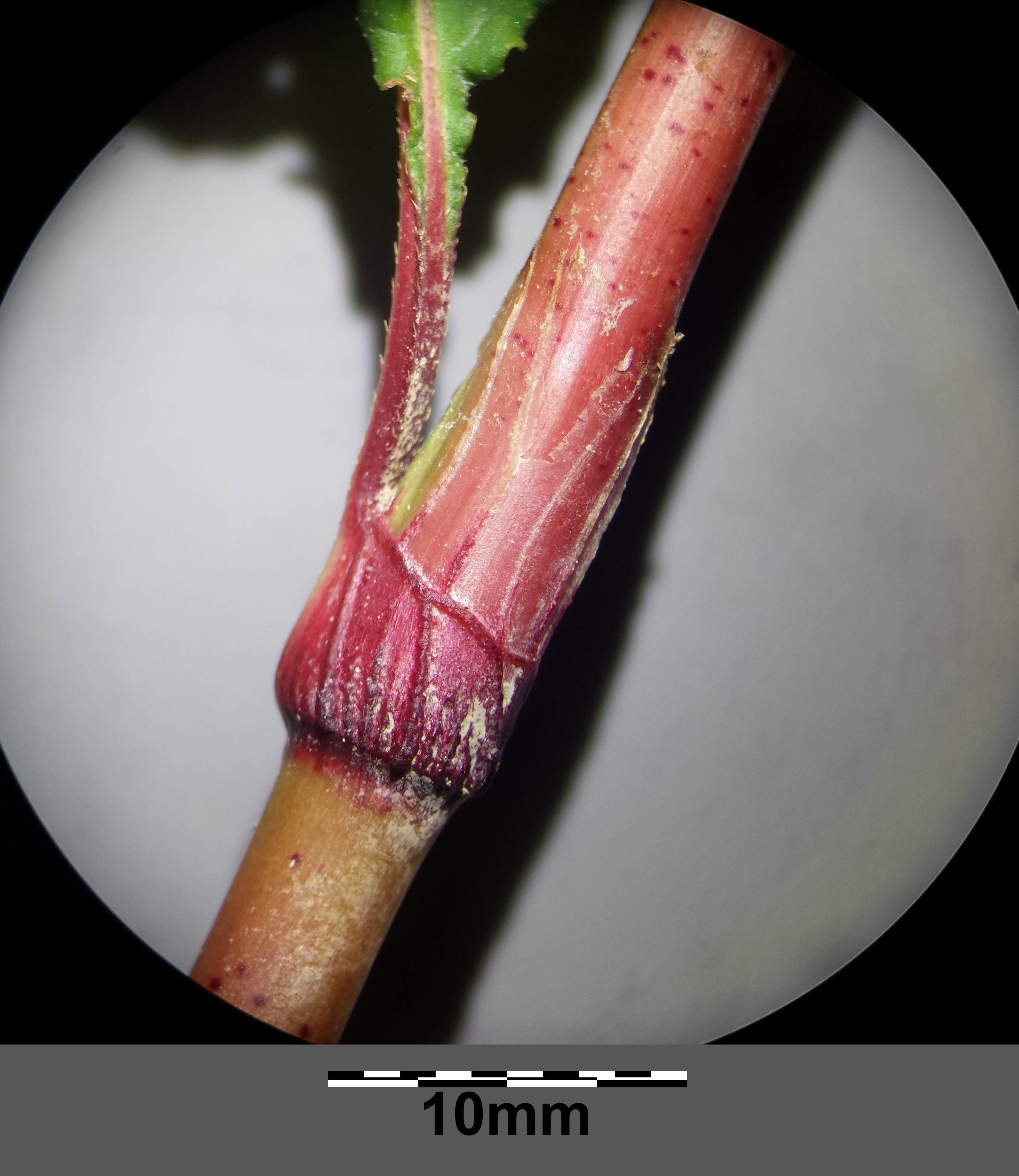 Shortly ciliate ochrea Taxonym: Persicaria lapathifolia subsp. brittingeri ss Fischer et al. EfÖLS 2008 ISBN 978-3-85474-187-9 Location: Schichtgründe, Leopoldau, Vienna-Floridsdorf - ca. 160 m a.s.l. Habitat: building zone